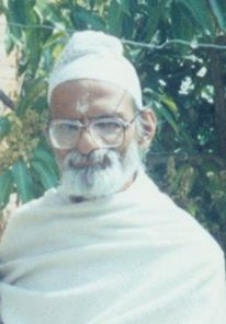 At his residence